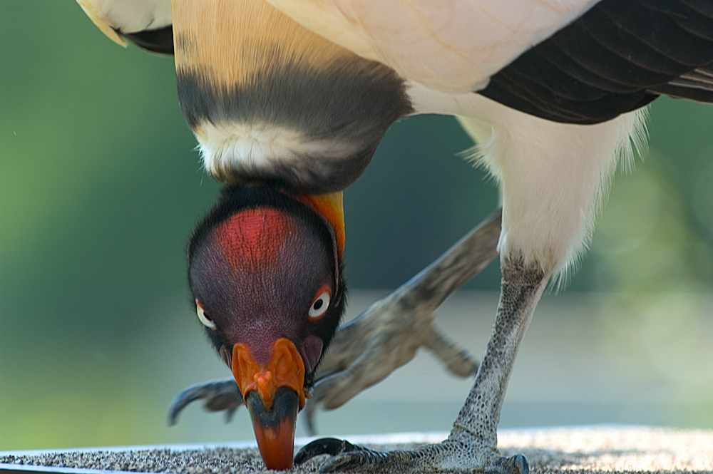 Shot at the Minnesota Zoo's Bird Exhibit. Image of the King Vulture. Copyright © 2004-2006 by April M. King, aka Marumari, donated to Wikipedia under the GFDL.